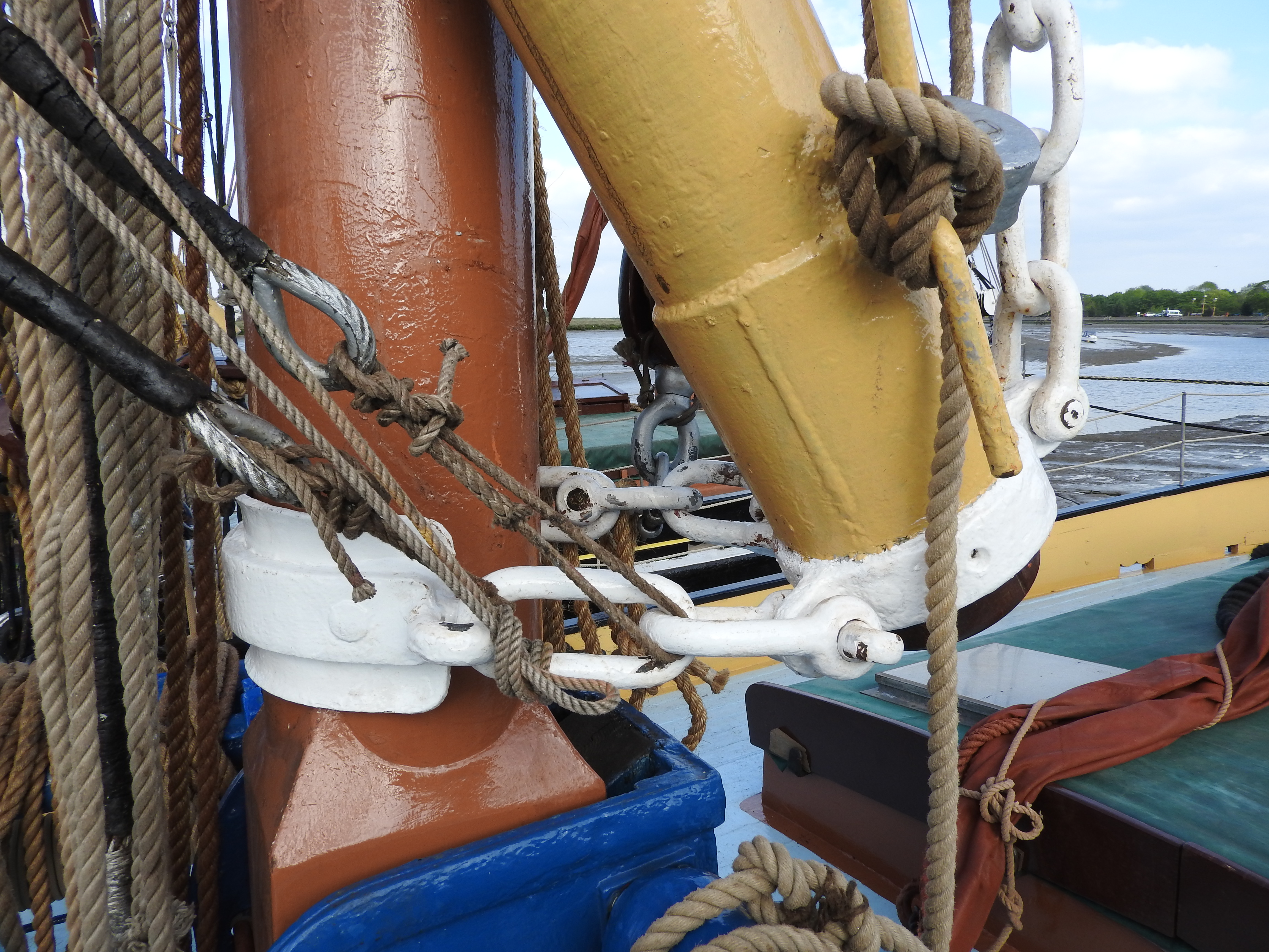 SB Centaur (1895). Thames Sailng Barge Trust- Pudge (1922) and Centaur (1895), and the lighter Sailorman (1931) are moored at Hythe Quay, Maldon.